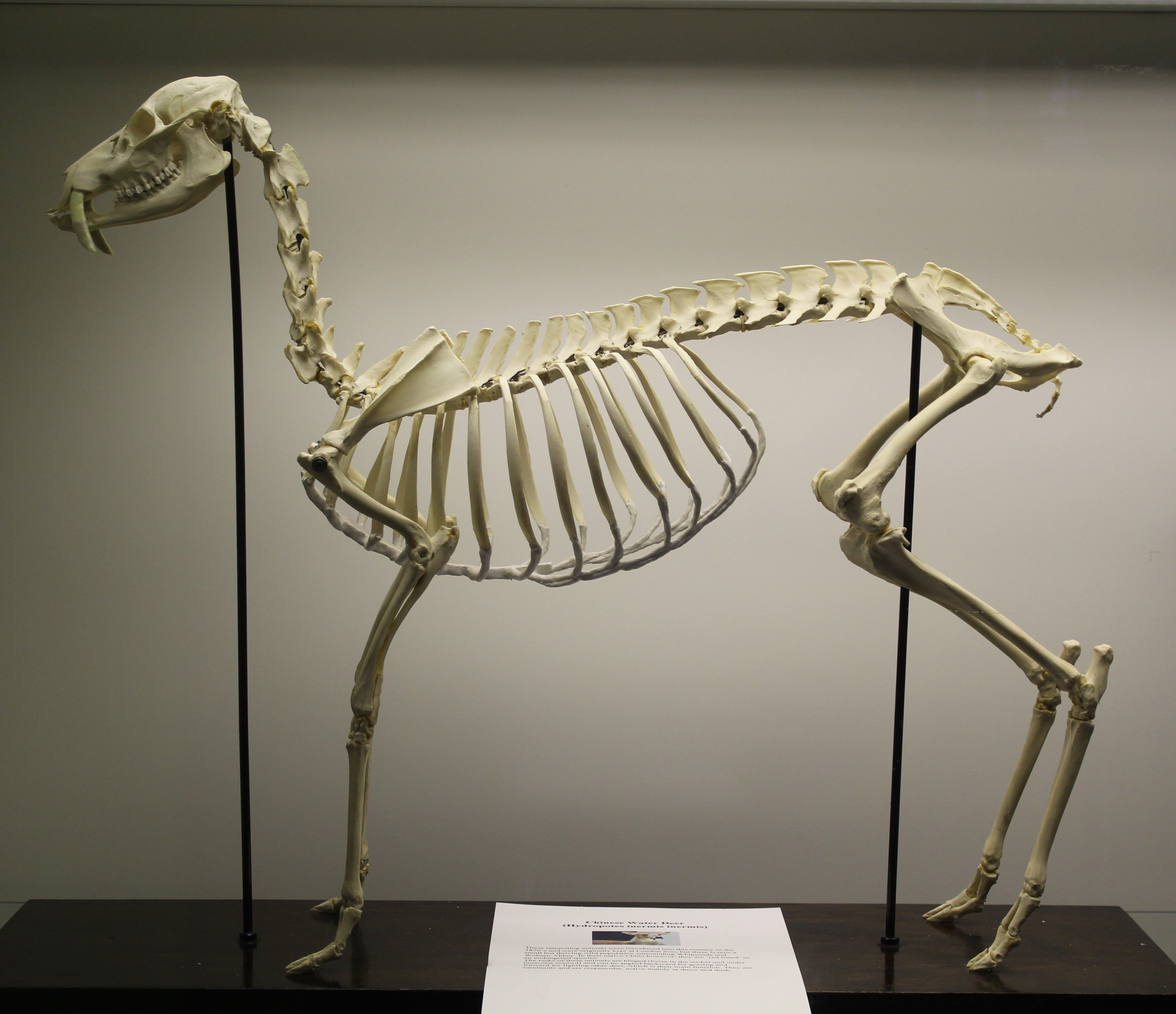 Chinese water deer (Hydropotes inermis) skeleton at the Royal Veterinary College anatomy museum